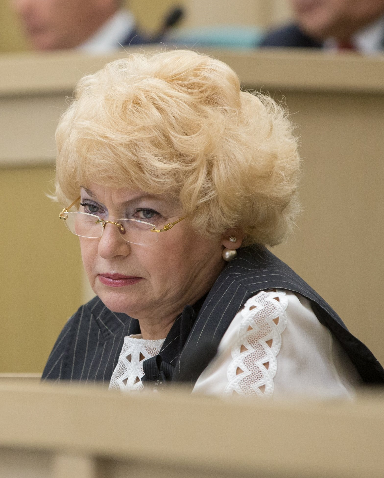 Lyudmila Narusova